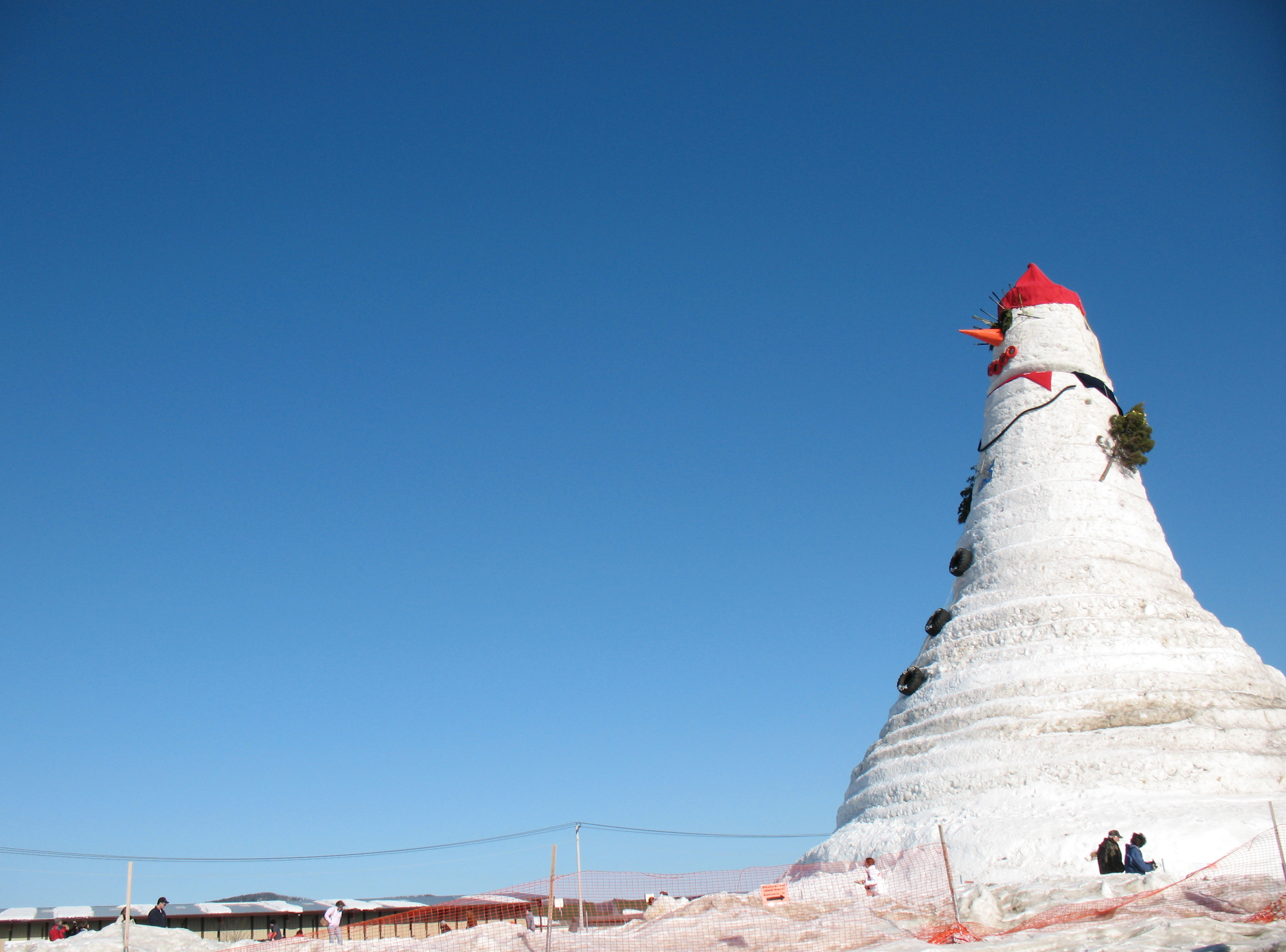 Townspeople and businesses in Bethel, Maine created "Olympia" the snow-woman, named after Maine senator Olympia Snowe, which is 122 feet, one inch high. It set a new Guinness world record, breaking a snowman also made in Bethel in 1999. It took more than a month to build, had a 100-foot scarf, 27-foot evergreen trees for arms, and the eyelashes were made of old skis donated from nearby ski resort Sunday River.